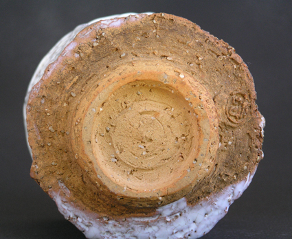 Hagi. Grit makes a rough clay in Oni-Hagi